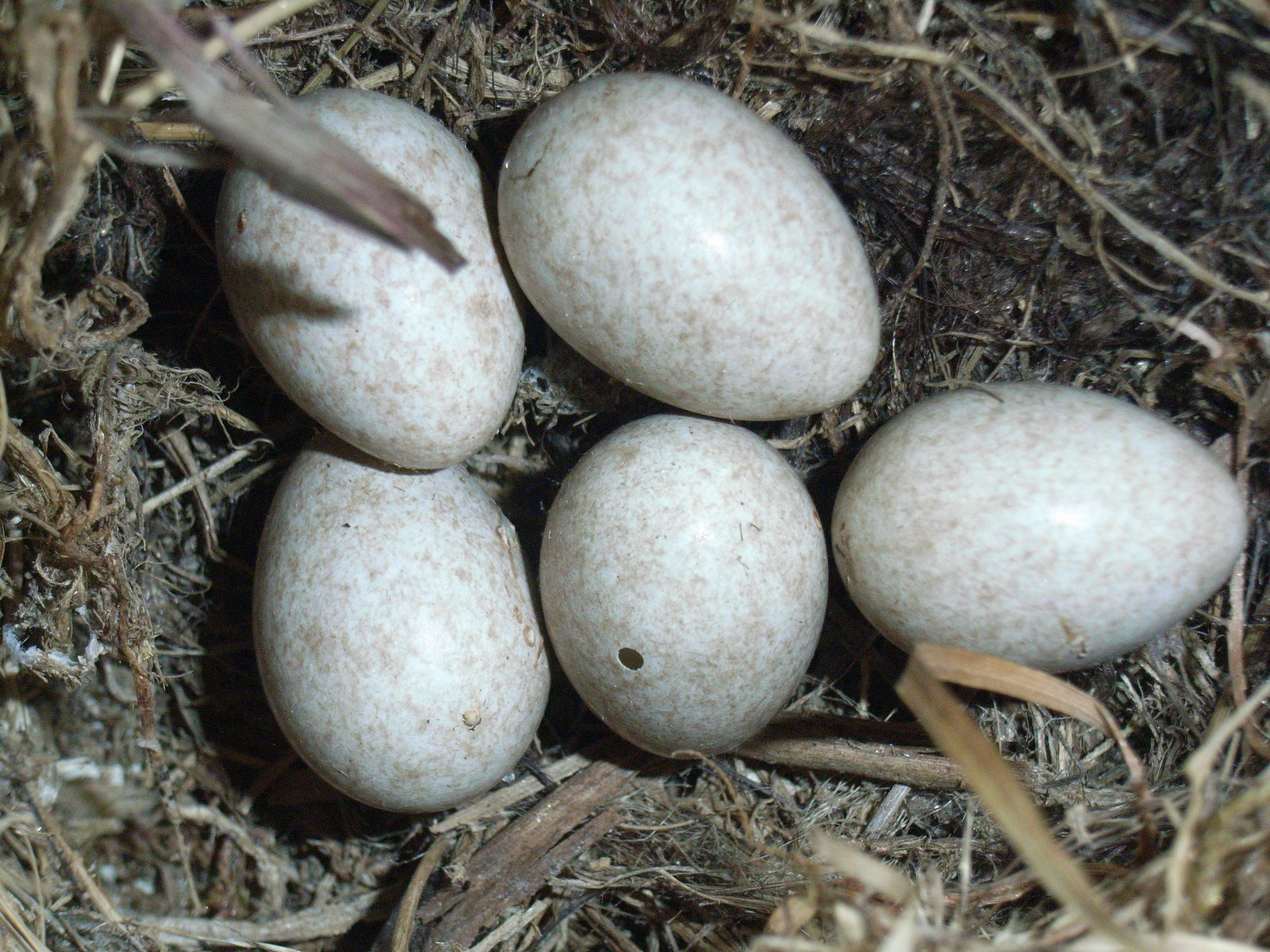 Motacilla flava eggs.